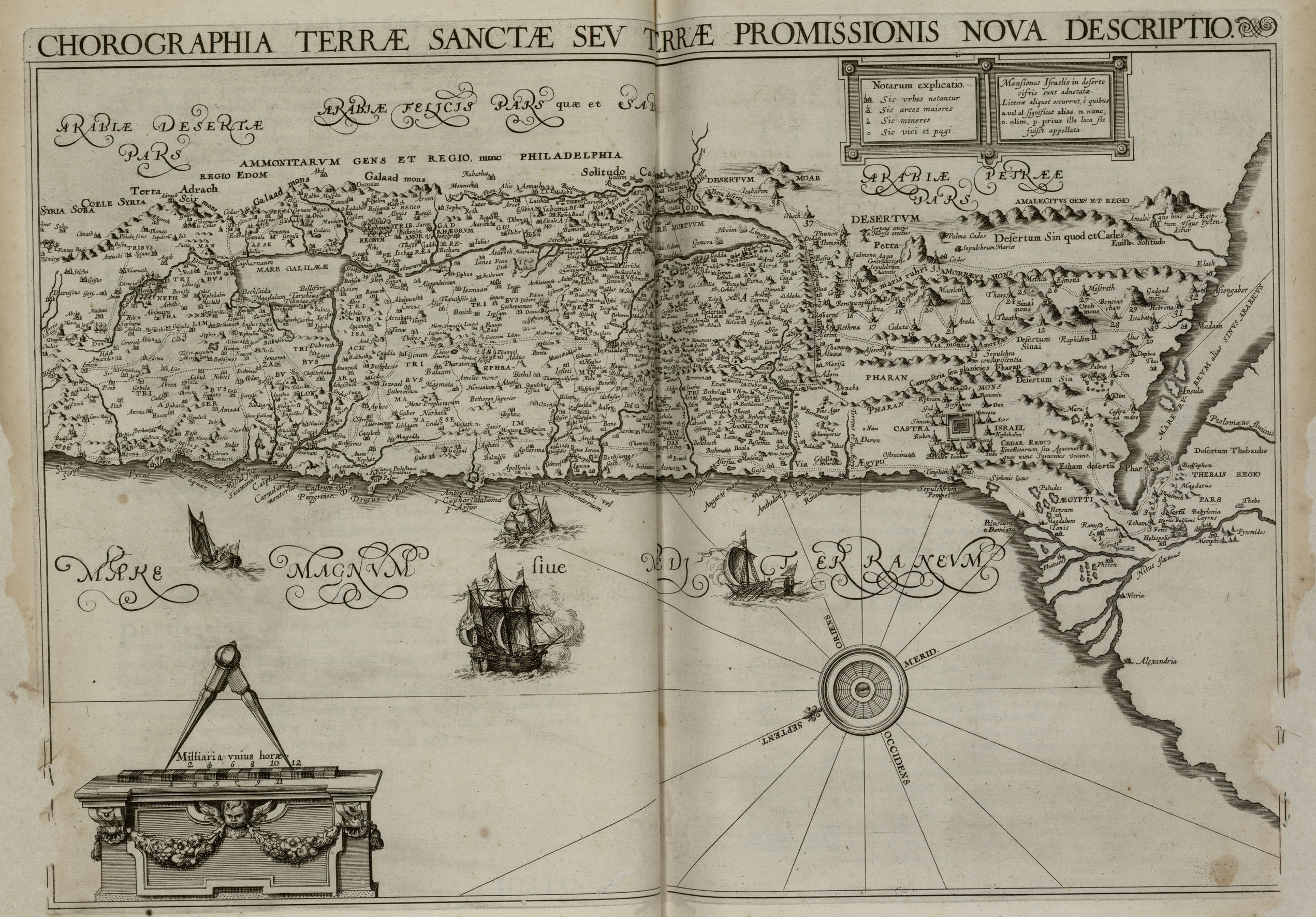 A map of the Holy Land from 1639